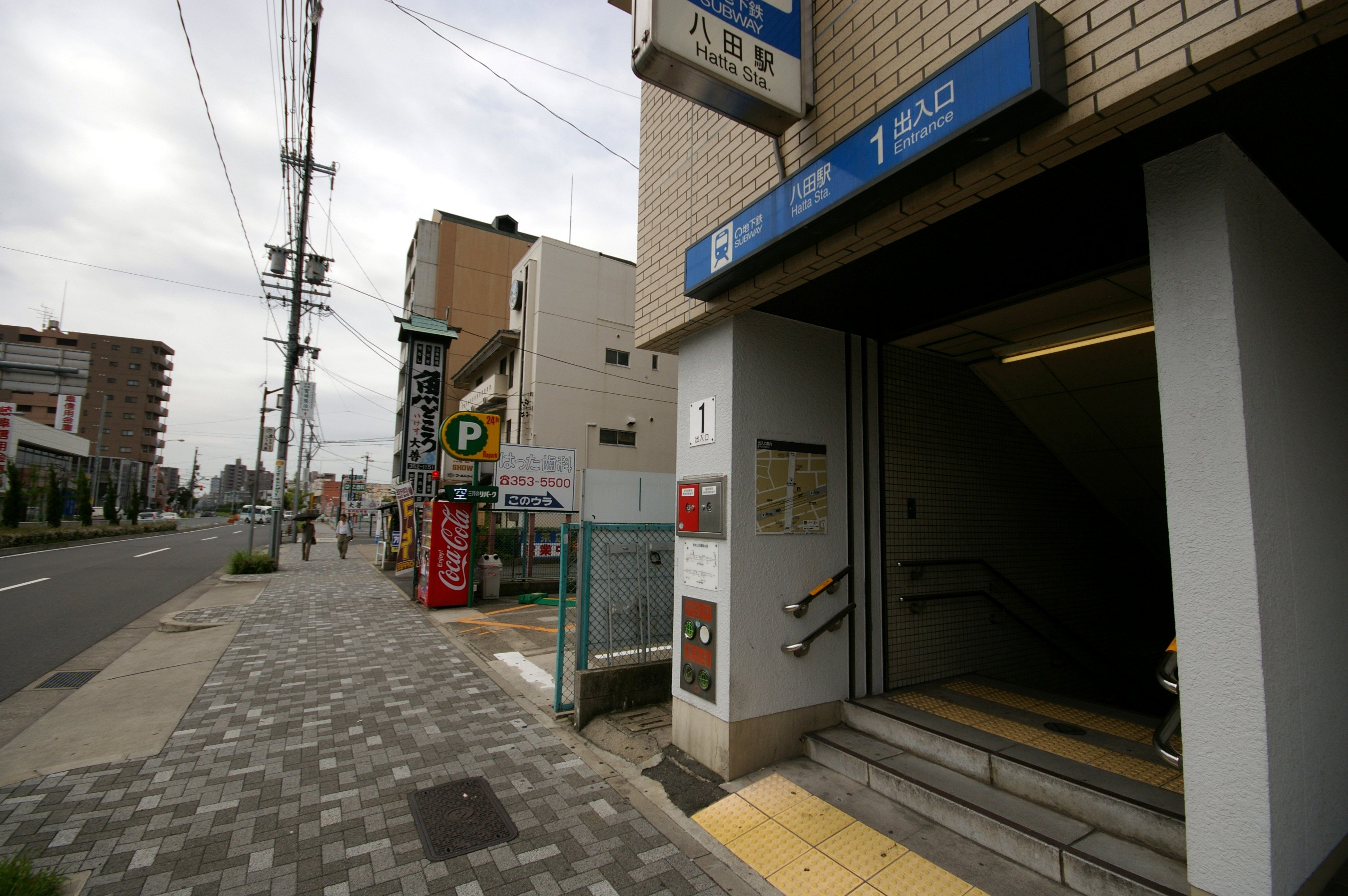 Nagoya Hatta subway station